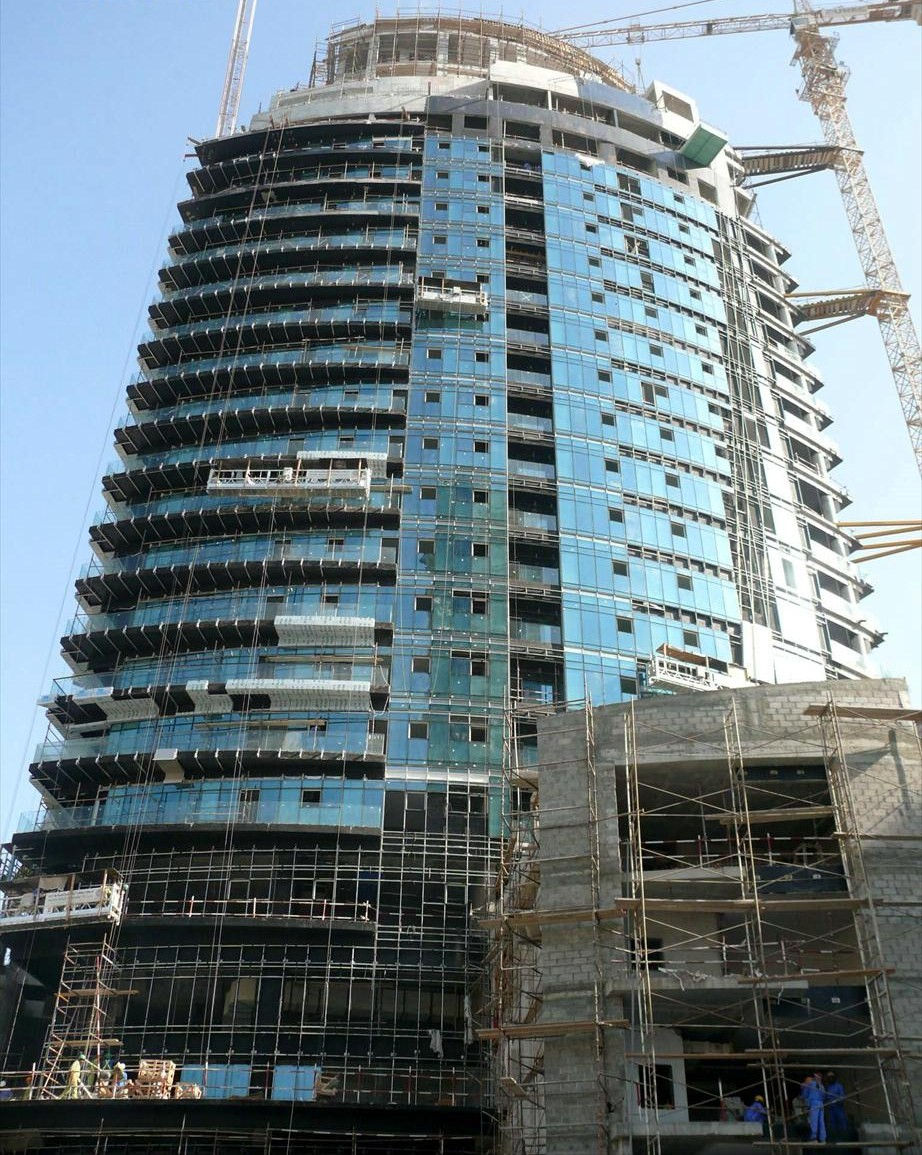 This is a photo showing Bayside Residence, located in Dubai Marina in Dubai, United Arab Emirates, nearing completion on 6 December 2007.